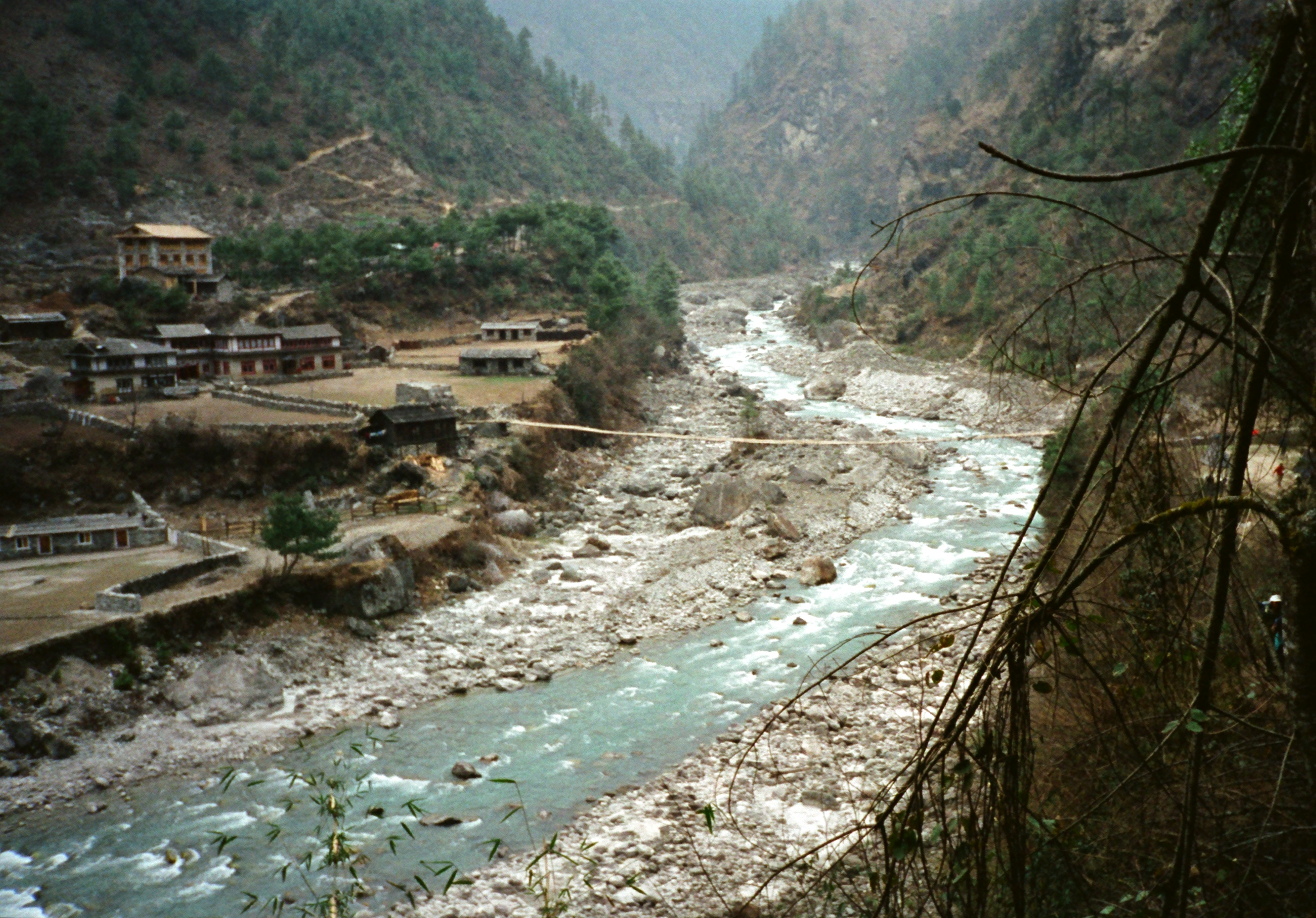 Sitting beside the Dudh Kosi River, Ghat, Nepal